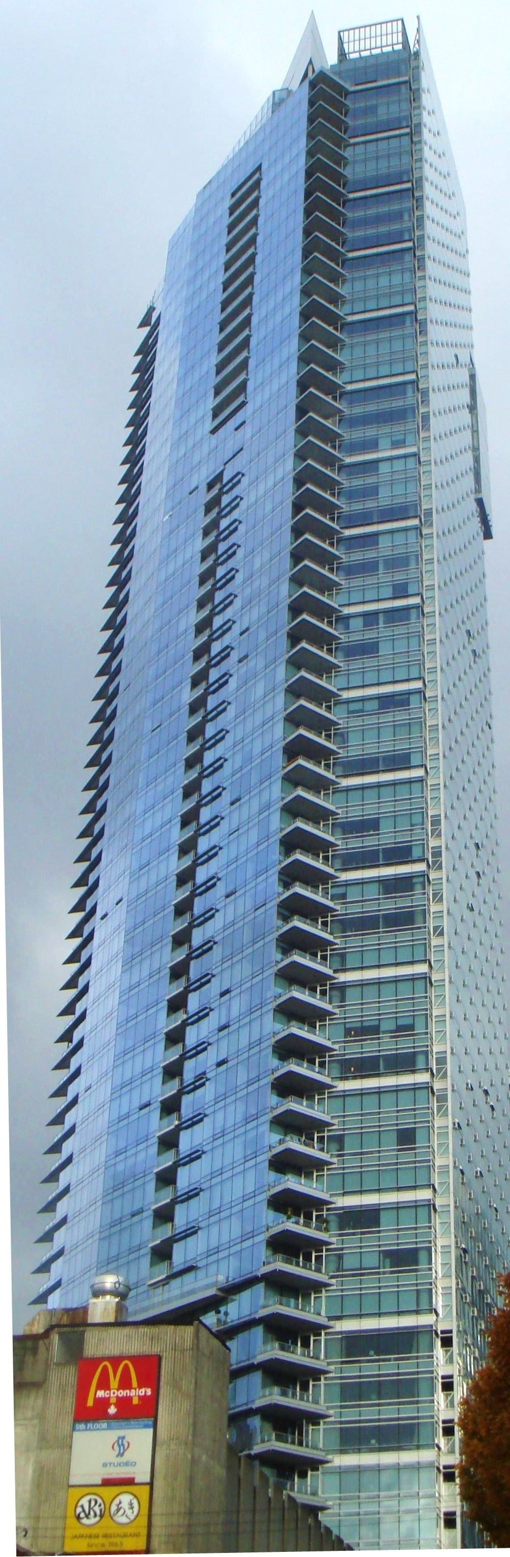 Living Shangri-La in Vancouver, Canada